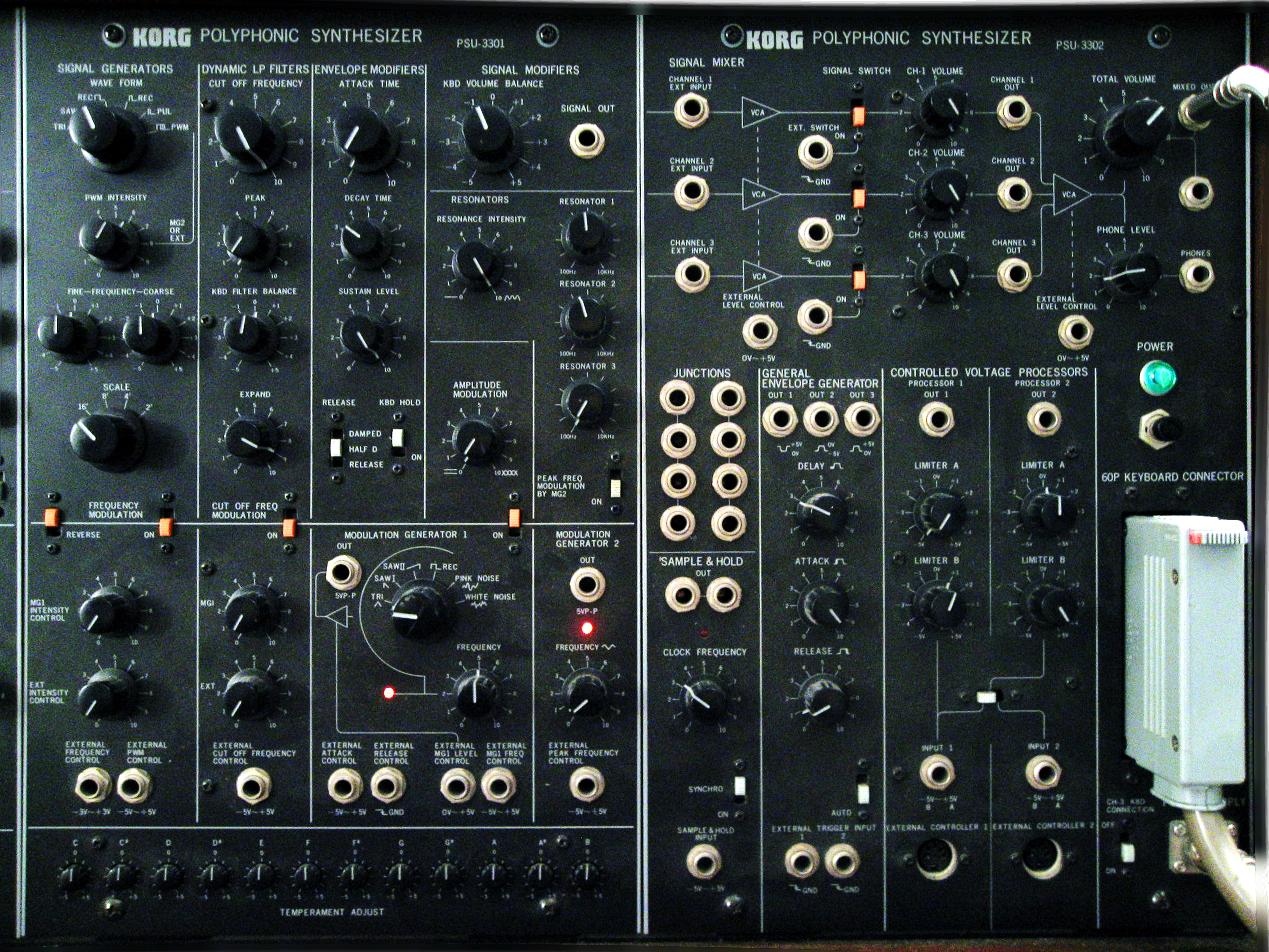 Korg PS-3300 closeup